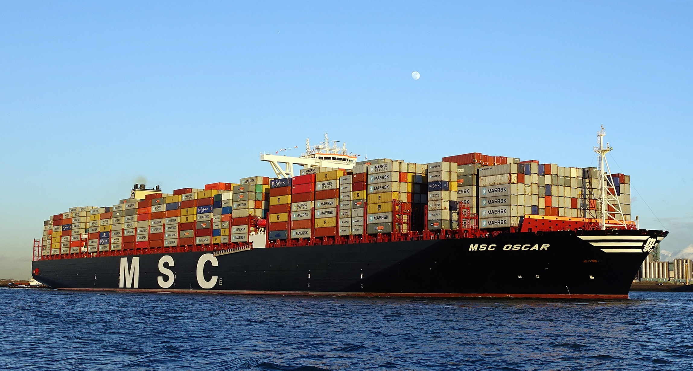 Container ship MSC Oscar, first visit in Rotterdam, 3-3-2015